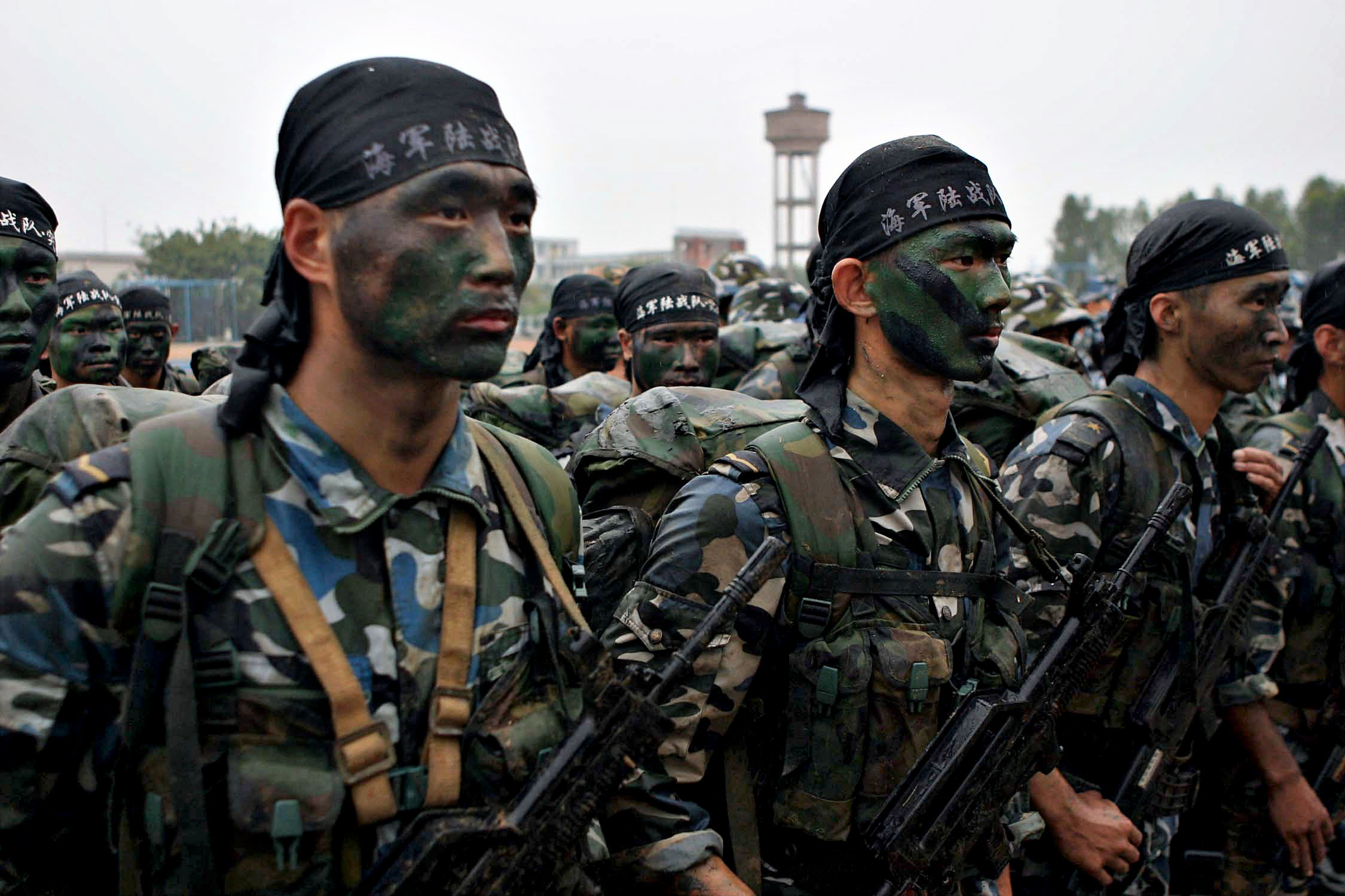 Marines of the People's Liberation Army (Navy) (PLA(N)) stand at attention as Commander, Pacific Fleet Rear Adm. Gary Roughead greets them following a demonstration of the brigade's capabilities. Roughead's visit to Zhanjiang coincides with the port visit of the amphibious transport docks ship USS Juneau (LPD 10), which will conduct a search-and-rescue exercise (SAREX) with PLA (N) assets after the visit. Roughead and Chinese leaders feel the visit and ensuing SAREX will promote mutual understanding, transparency and cooperation between both navies and nations.